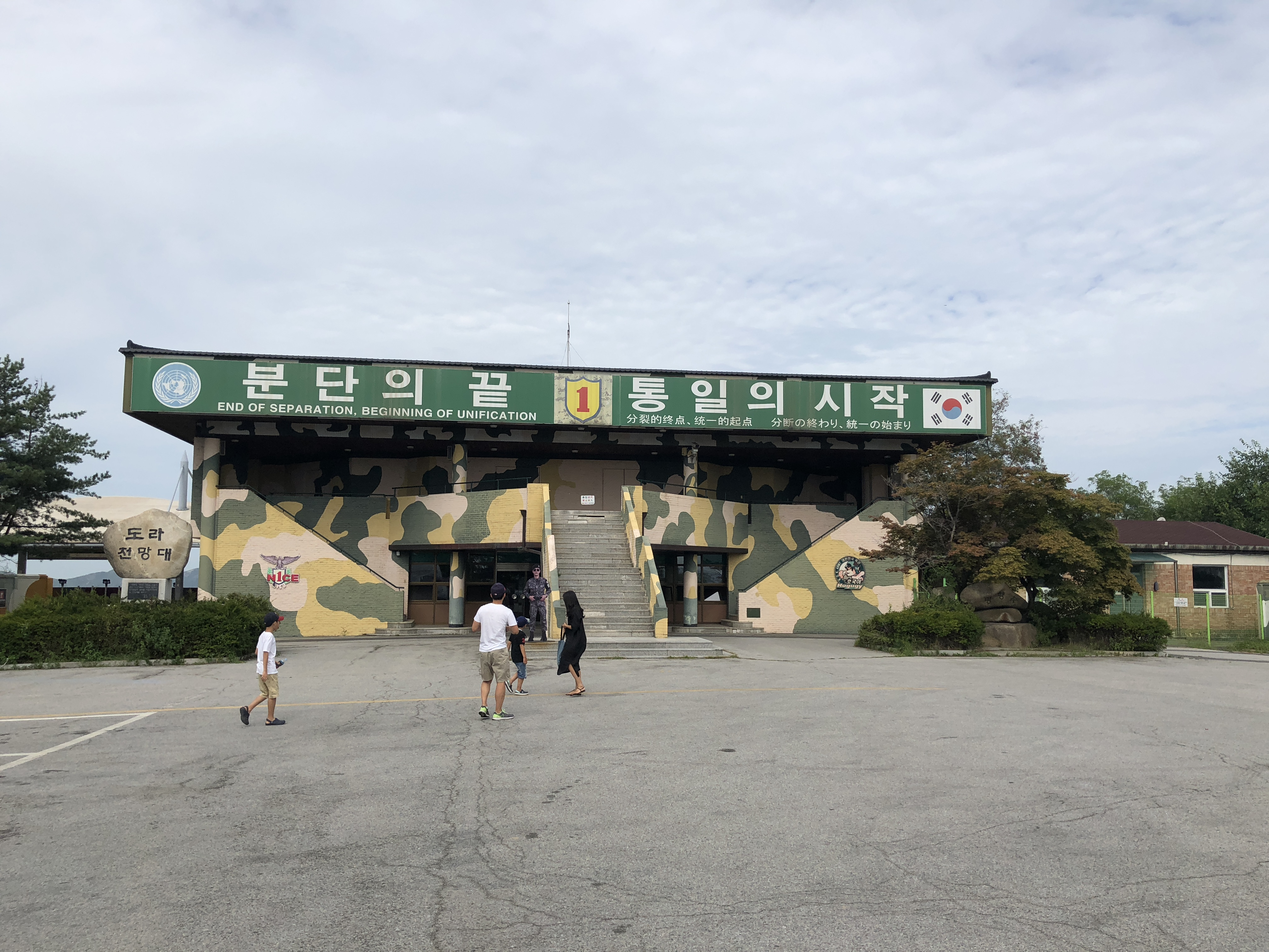 Civil Dora Observatory. in Right Logo is Korean Army Logo, and Left is 1st Infantry Division's logo. right building is military purposed